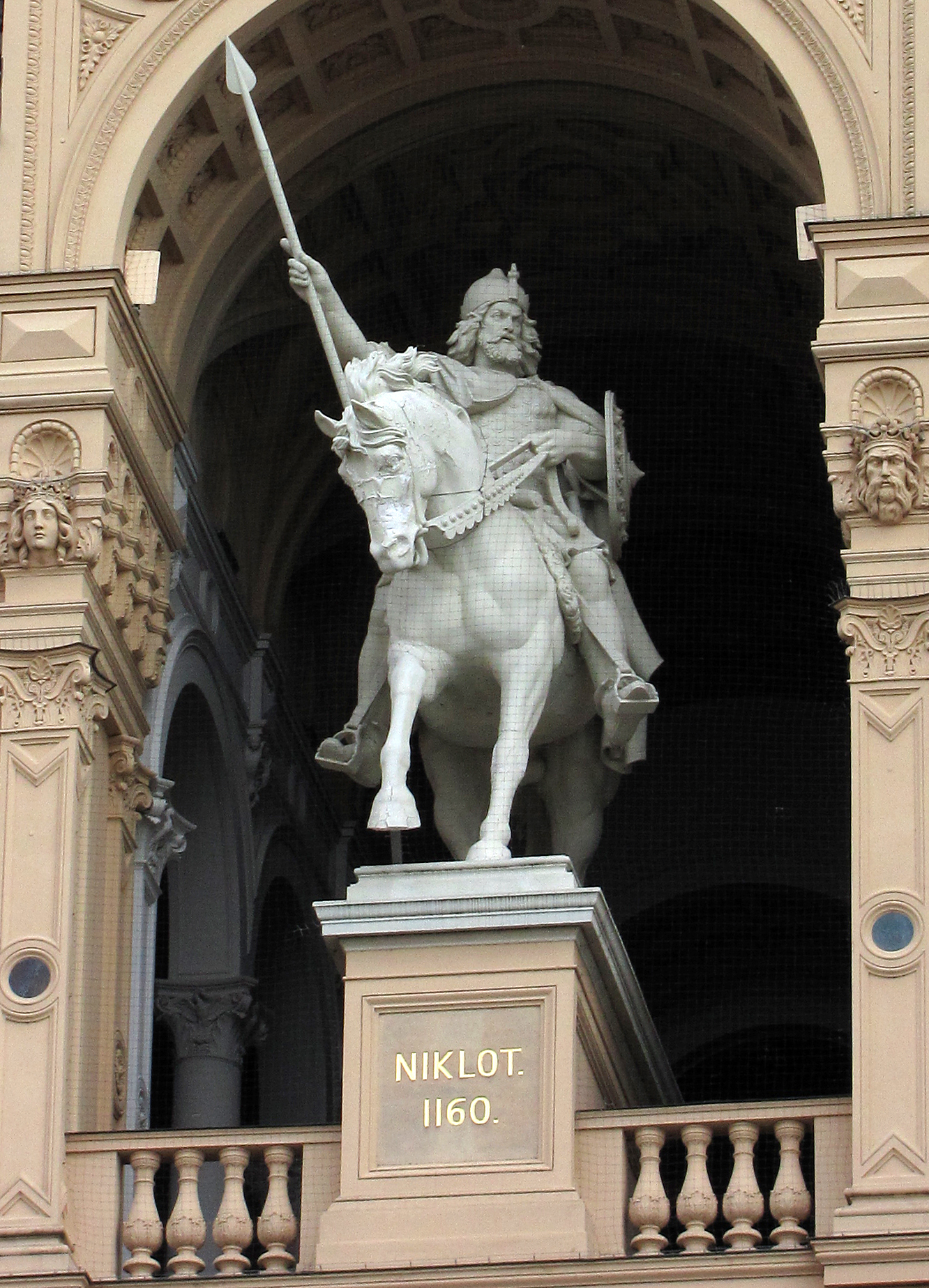 Equestrian Statue of the Obotrite prince Niklot at the Schwerin Castle. Vensťĕ: Komoiclawak wit Wawôde Niklote no tü Gorde Zwarine.